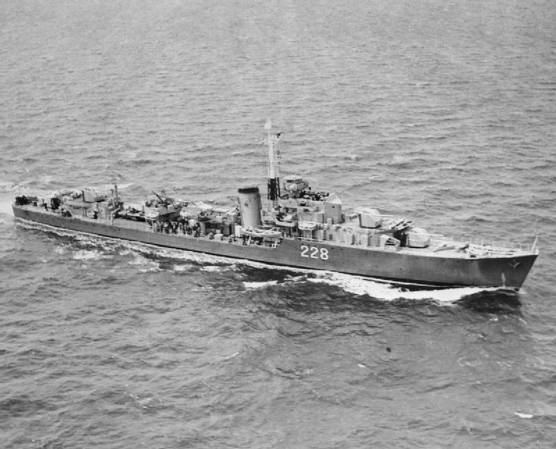 The Royal Canadian Navy C-class destroyer HMCS Crusader (DD 228), circa in 1946 after the transfer to the RCN. Crusader had been commissioned in 1945 as HMS Crusader (R20). She was later converted to an anti-submarine frigate (DDE 228) and scrapped in 1964.